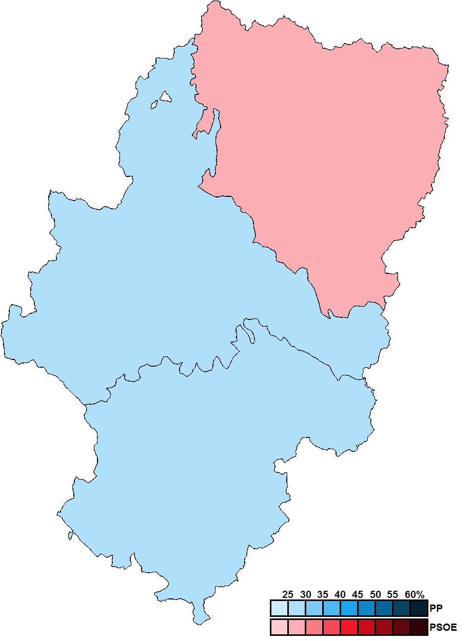 Provincial results for the 2015 Aragonese regional election.